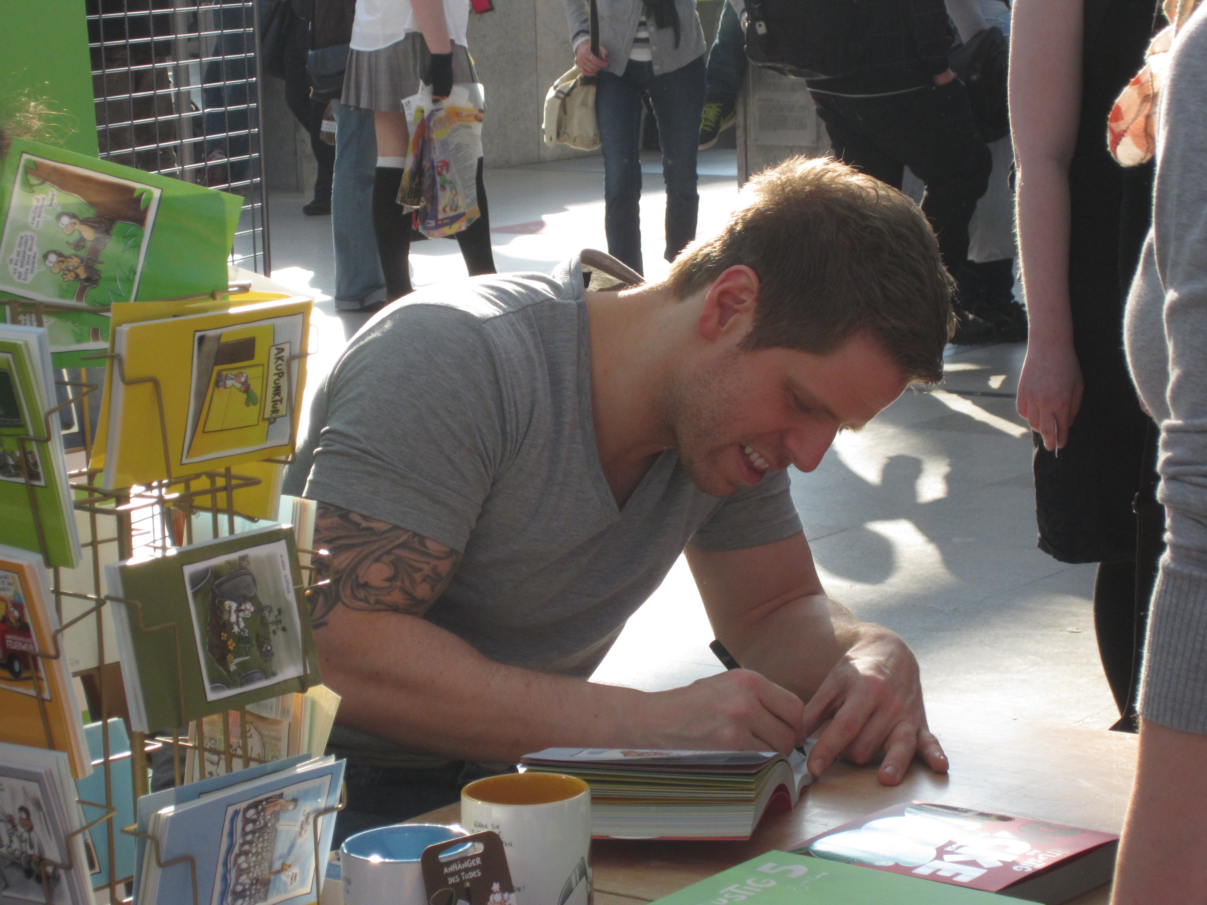 Joscha Sauer in the Leipzig Book Fair (2013)